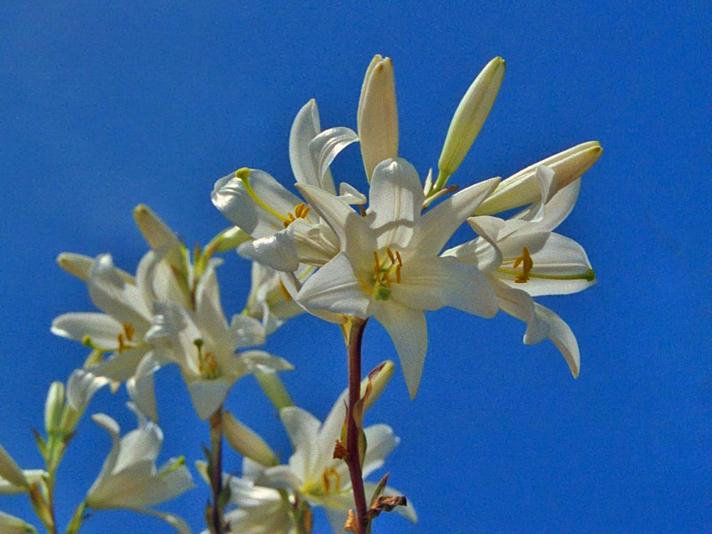 Lilium Candidum - Sardinia